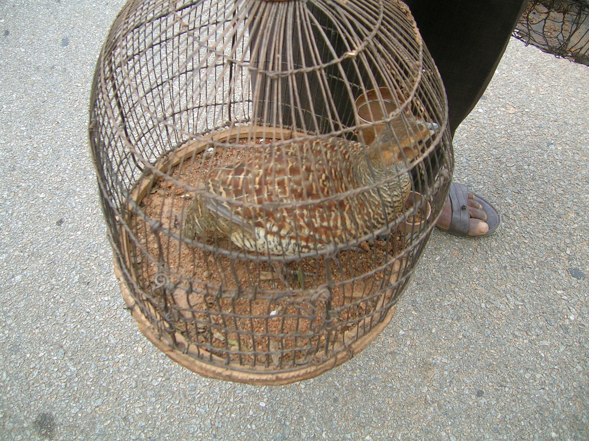 A decoy grey francolin used by a trapper, Chikballapur